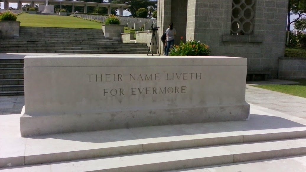 An inscription near the Kranji War Memorial, Singapore.